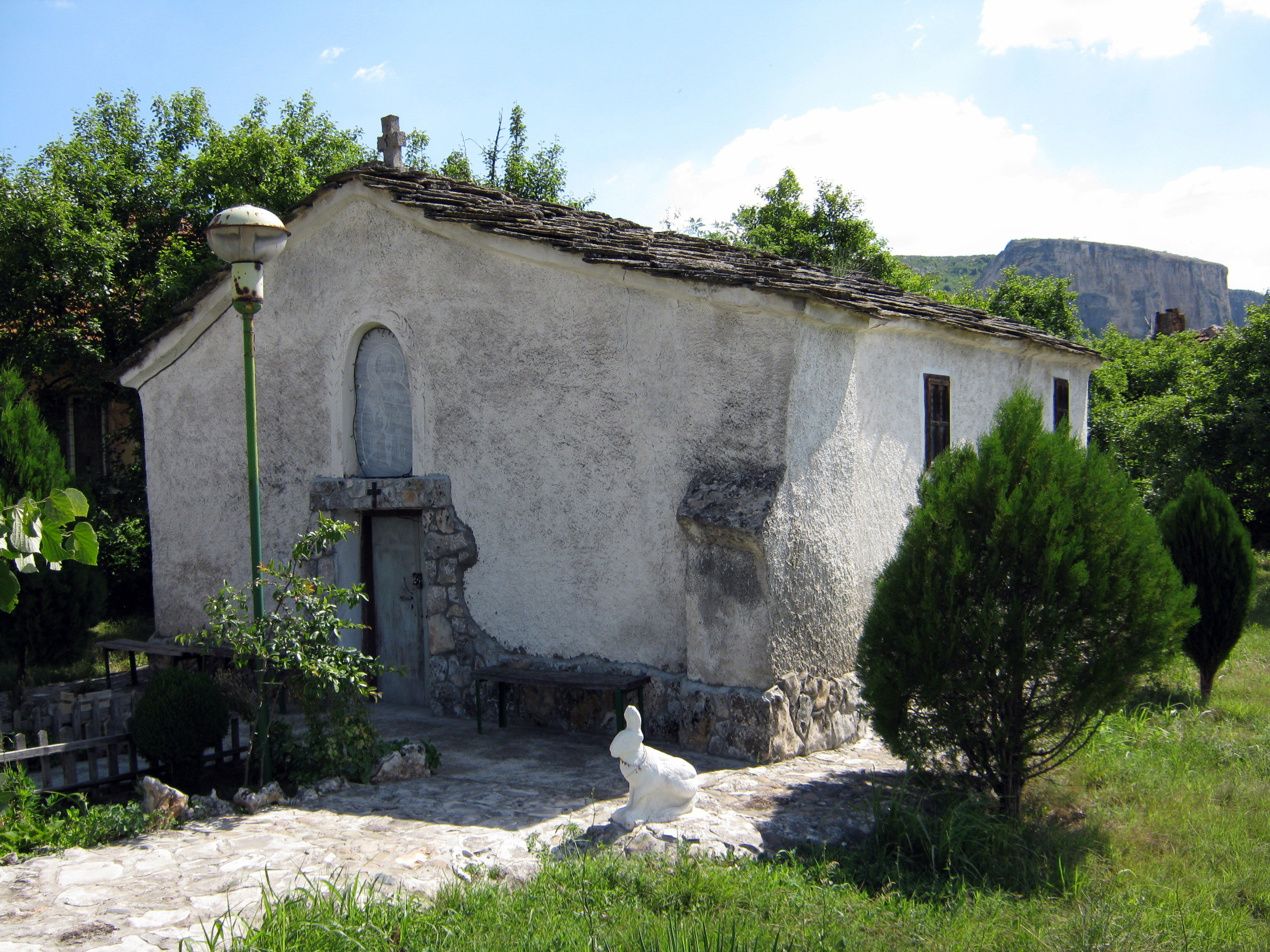 Kunino, Bulgaria - The Medieval Church